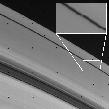 Image of Pan, a moon of Saturn, collected by the Narrow Angle Camera of NASA's Voyager 2.